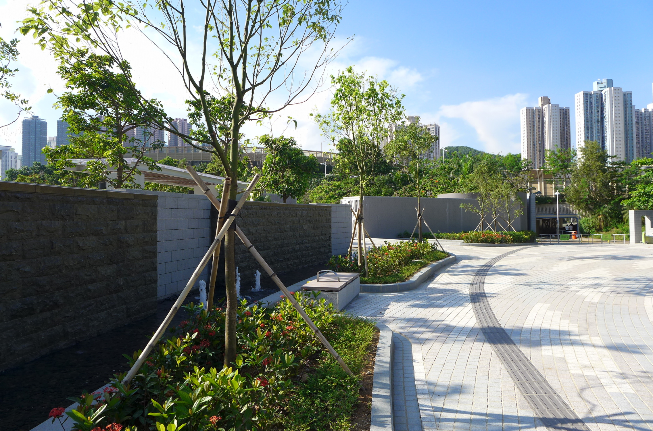 Tseung Kwan O Town Park